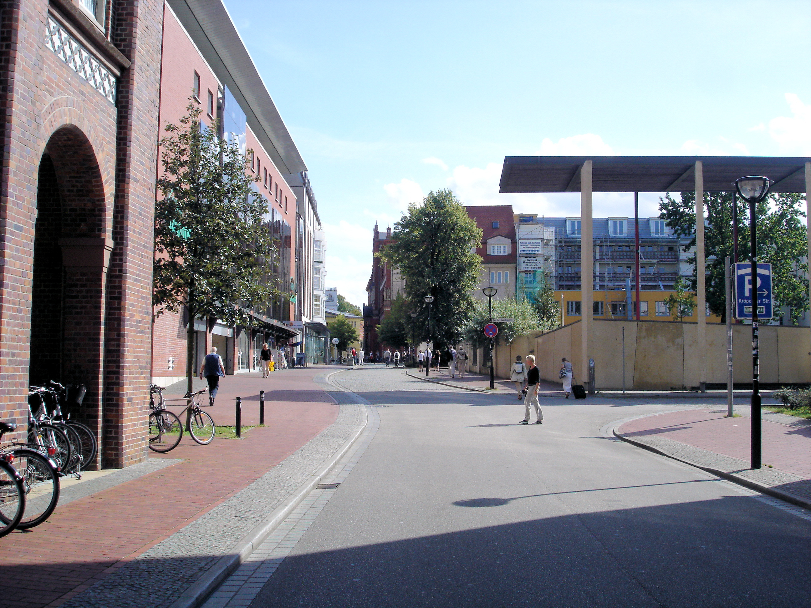 Street in the historic city of Rostock